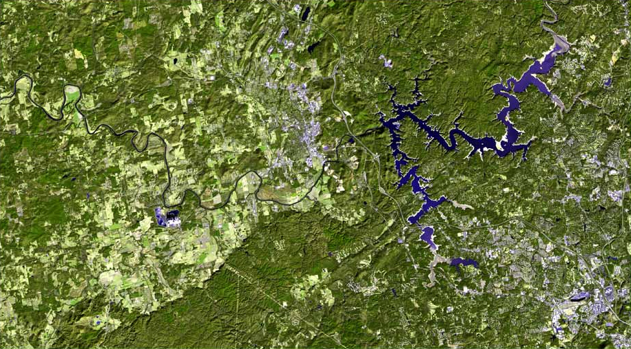 The raw satellite imagery shown in these images was obtain from NASA and/or the US Geological Survey. Post-processing and production by